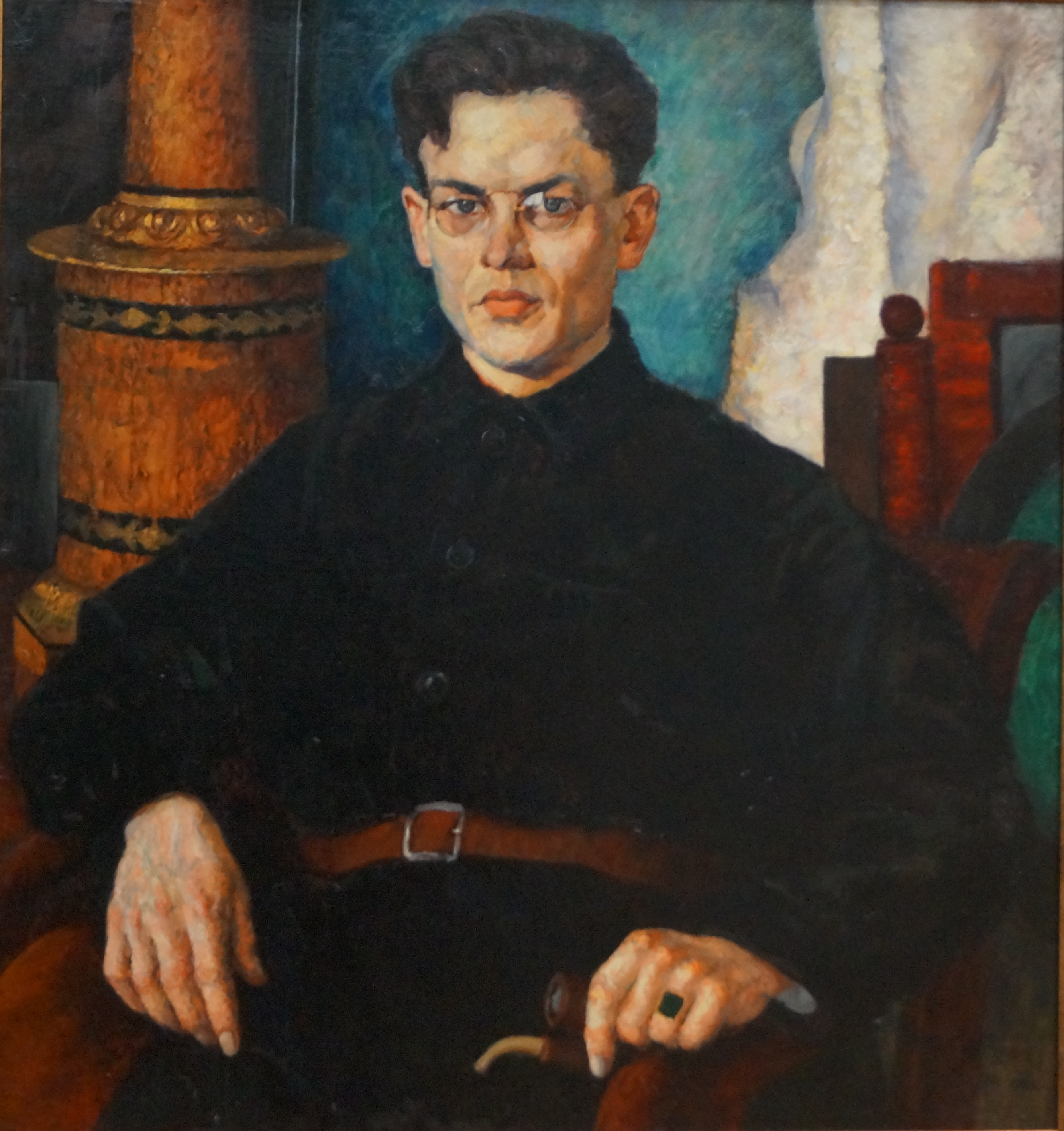 Ilya Mashkov (1881-1944), Portrait of N I Skatkin (1921-1923), oil on canvas, New Tretyakov Gallery, Moscow, Inv. 15706